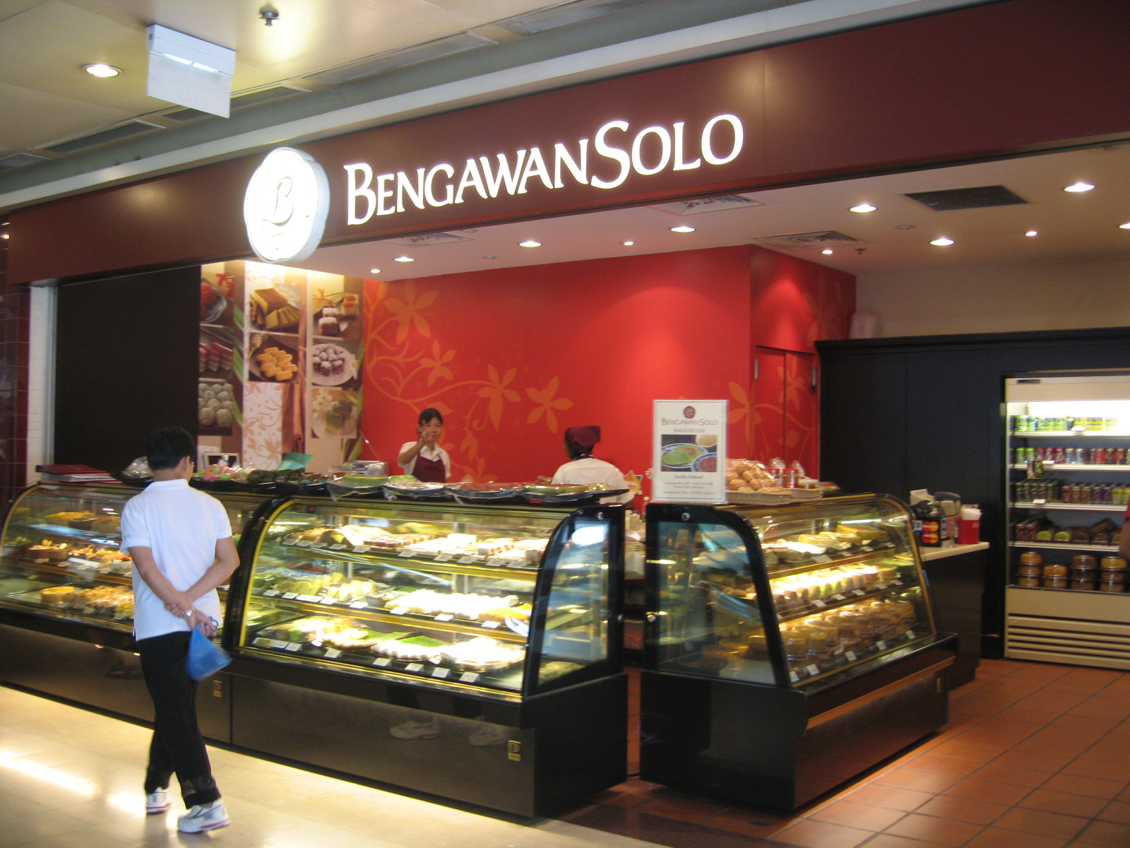 Bengawan Solo store at Raffles Place.